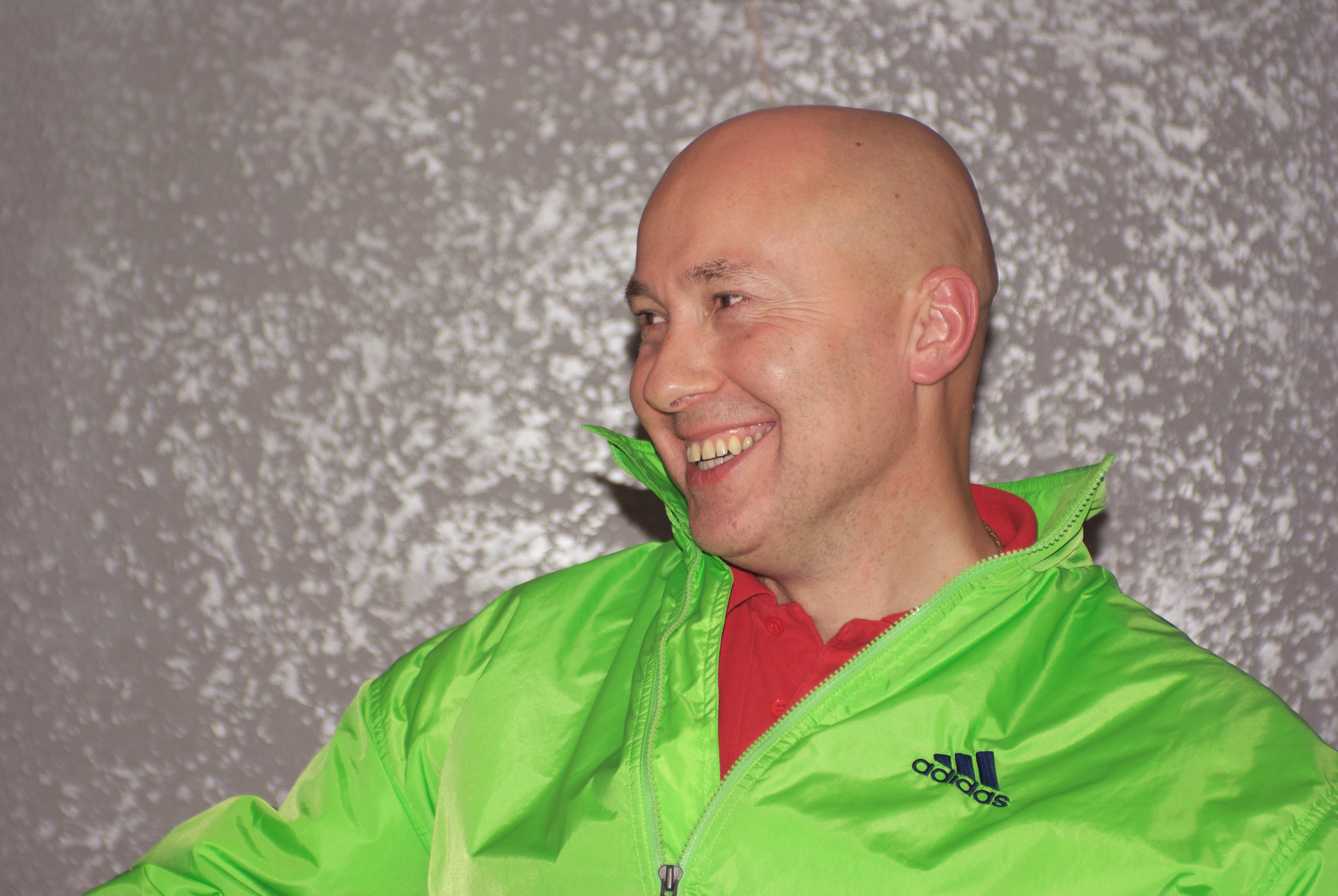 Alexander Soloduha